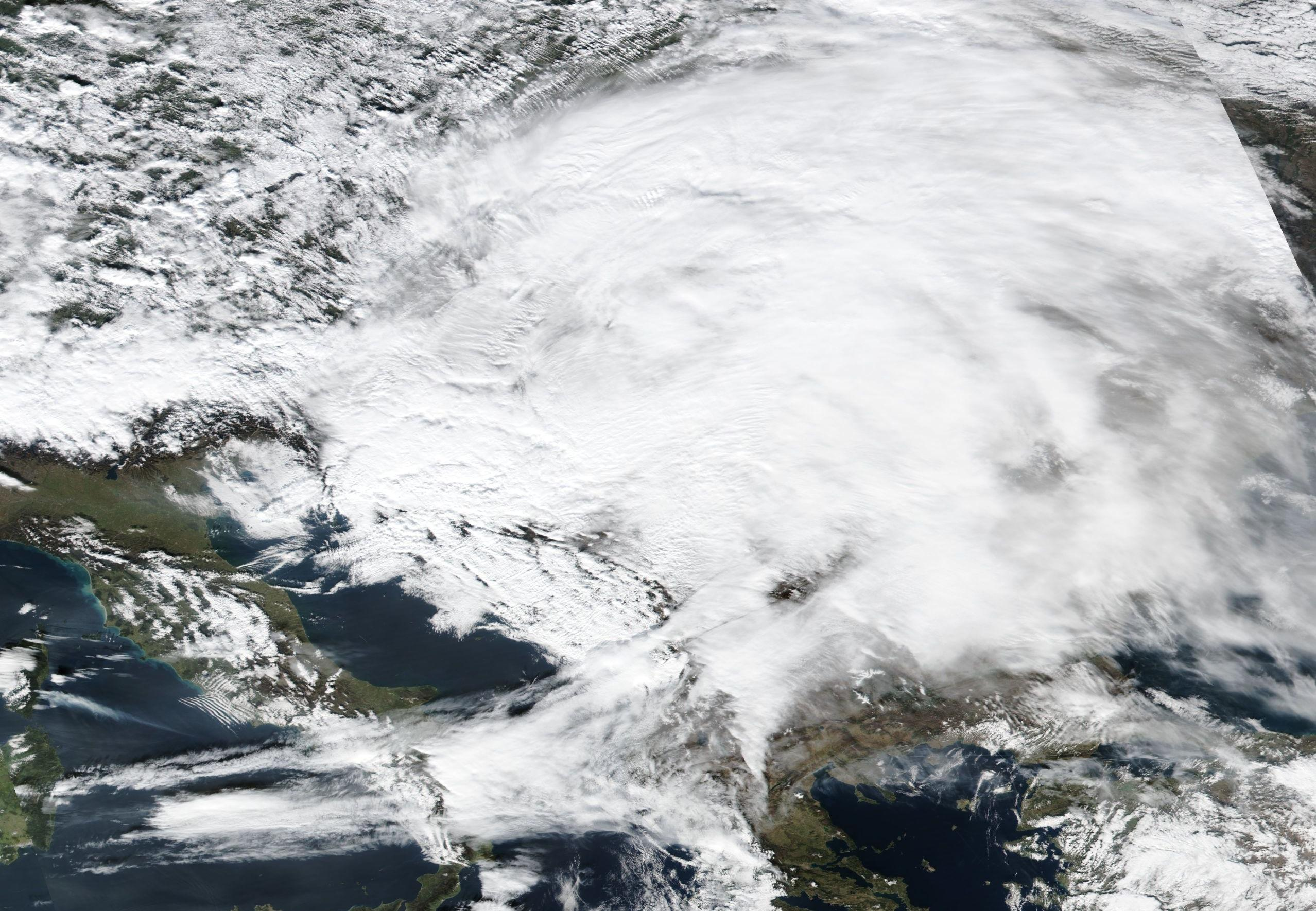 Storm Herve, of the 2019-2020 European windstorm season, covering much of eastern Europe on 4 February 2020.